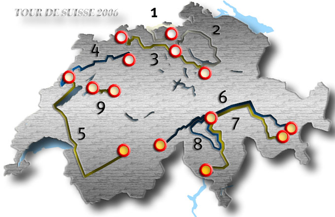 Map of the Tour de Suisse 2006 with shown stages